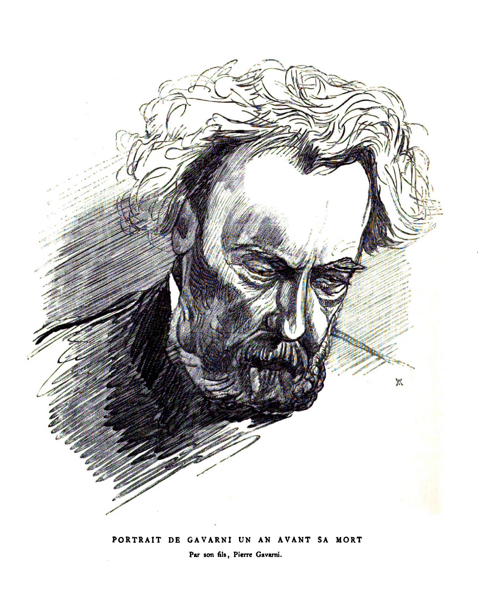 Portrait of Paul Gavarni, a year before his death, by his son Pierre